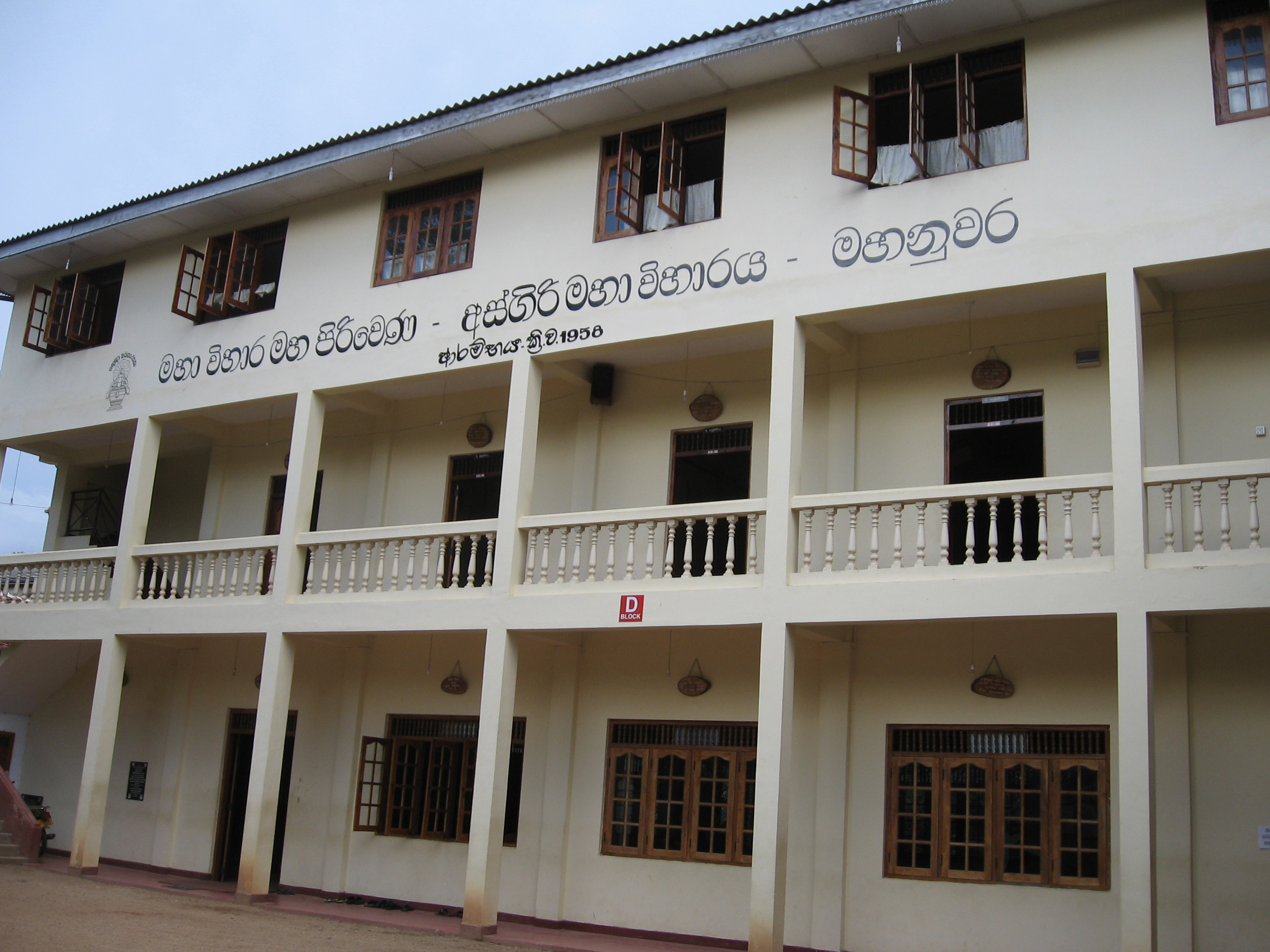 scool